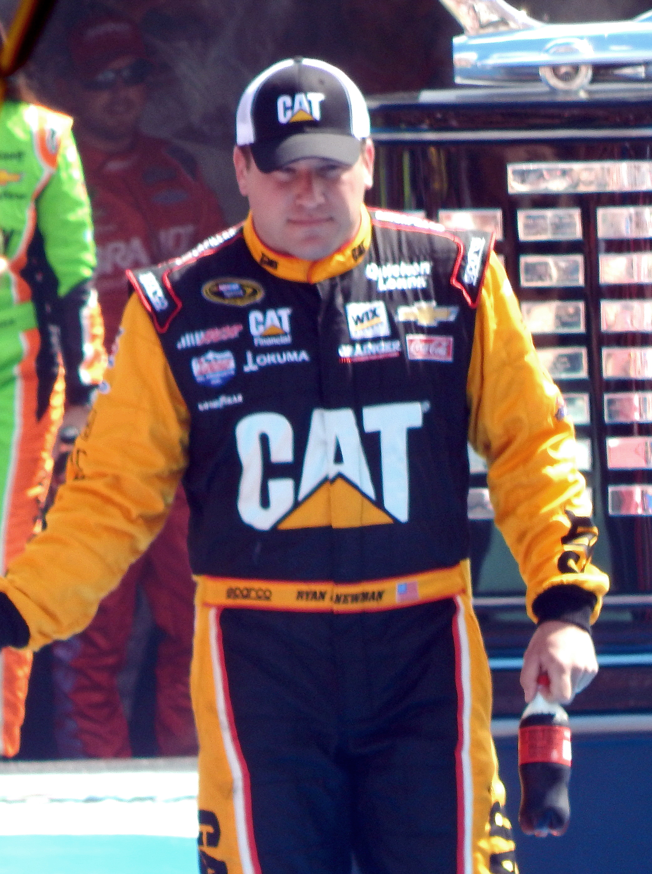 Ryan Newman being introduced at Daytona International Speedway.